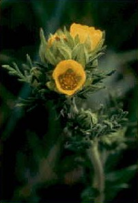 Potentilla pensylvanica, USGS photo